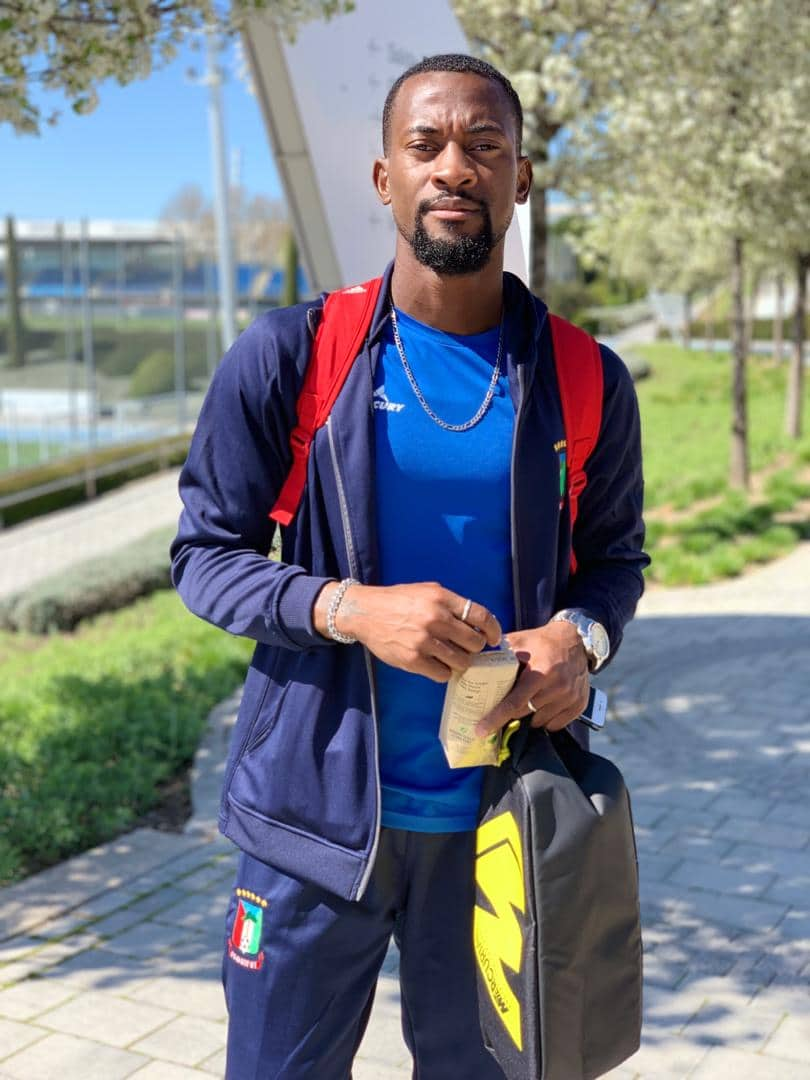 Photo of Felipe Ovono with Equatorial Guinea Team